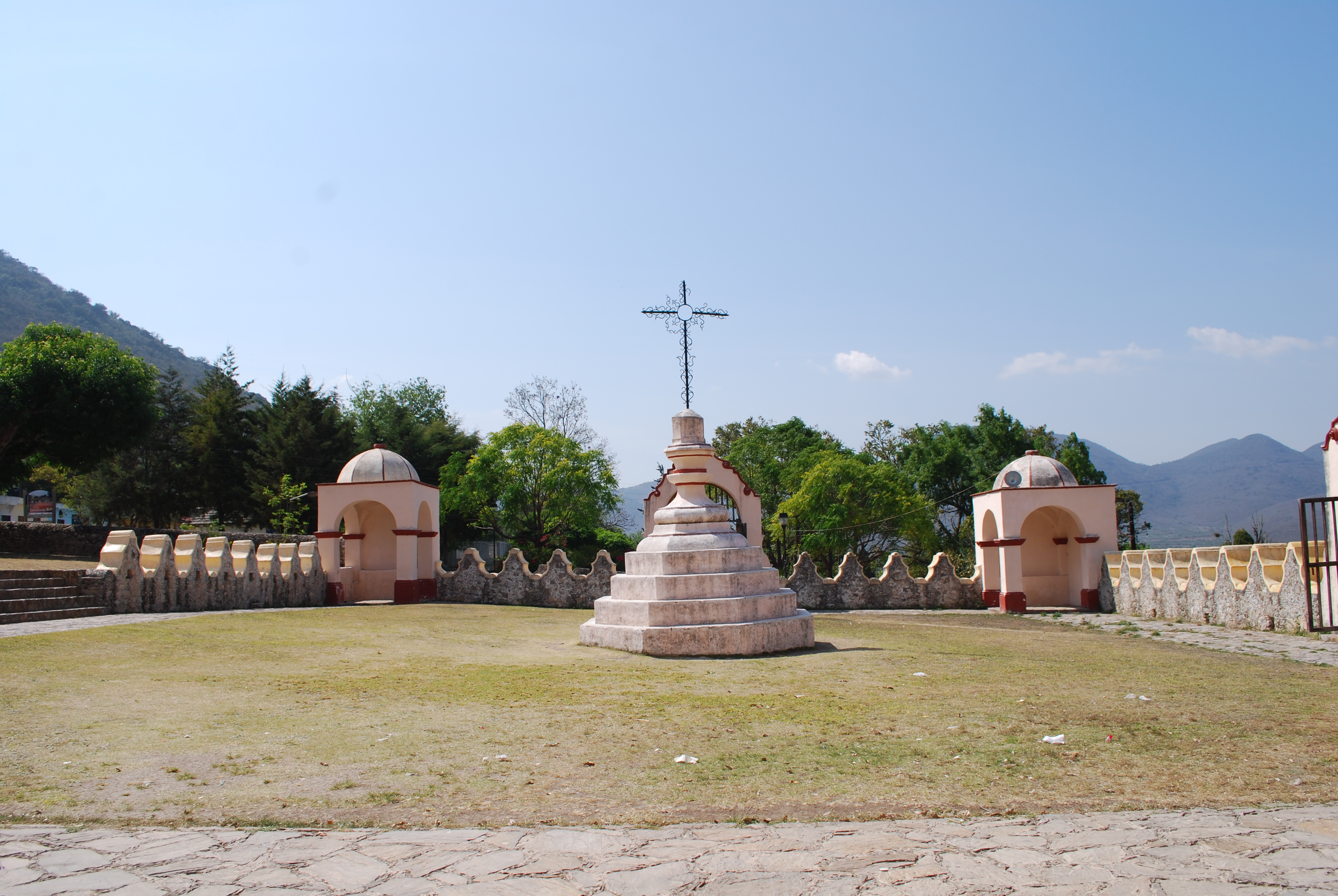 Atrium with intact capillas posas in the corners at the mission of Tilaco, Landa de Matamoros, Querétaro, Mexico